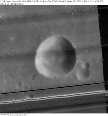 Lindbergh lunar crater - Lunar Orbiter IV image LO-IV-060H